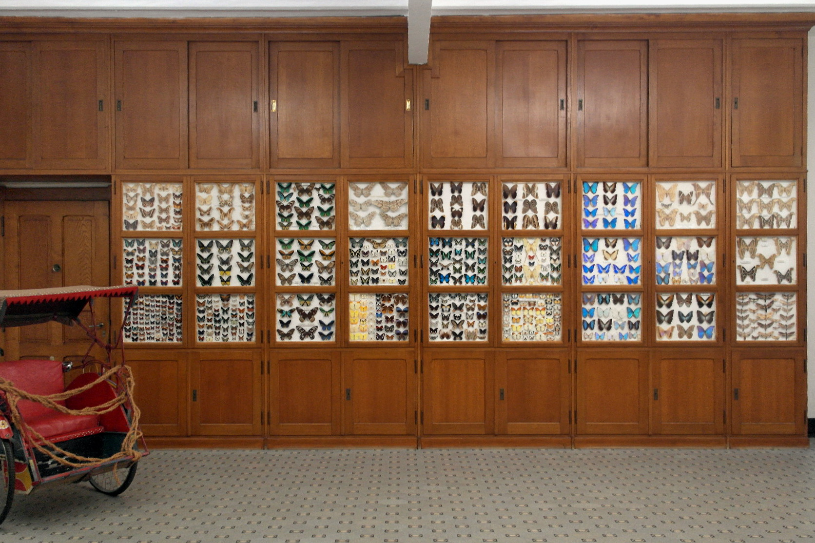 Taxidermic collection in the hall of butterflies and arthropods in Missiemuseum Steyl in Tegelen, Limburg, the Netherlands.